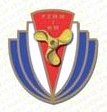 logo of Polish Motorboat and Water Ski Association